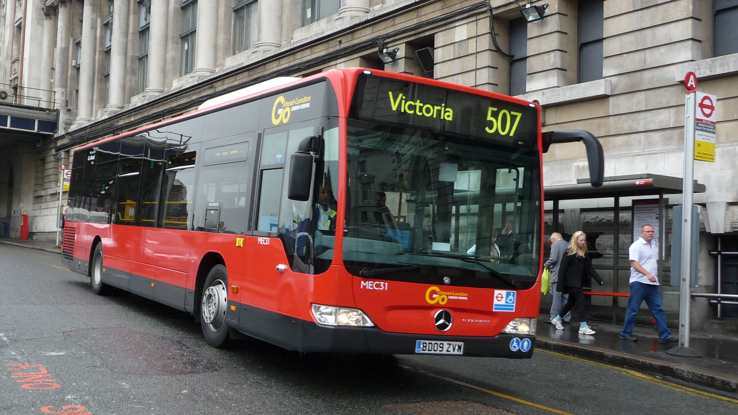 London General MEC31 (BD09 ZVW), a Mercedes-Benz Citaro, in Cab Road, Waterloo, outside London Waterloo railway station, on route 507. This Monday was the first weekday of rigid Citaro operation of the route, the service finished being operated by articulated buses on 24 July 2009, and rigid Citaros took over from the next day (a Saturday), coinciding with the introduction of a weekend service for this previously Monday - Friday only commuter route.